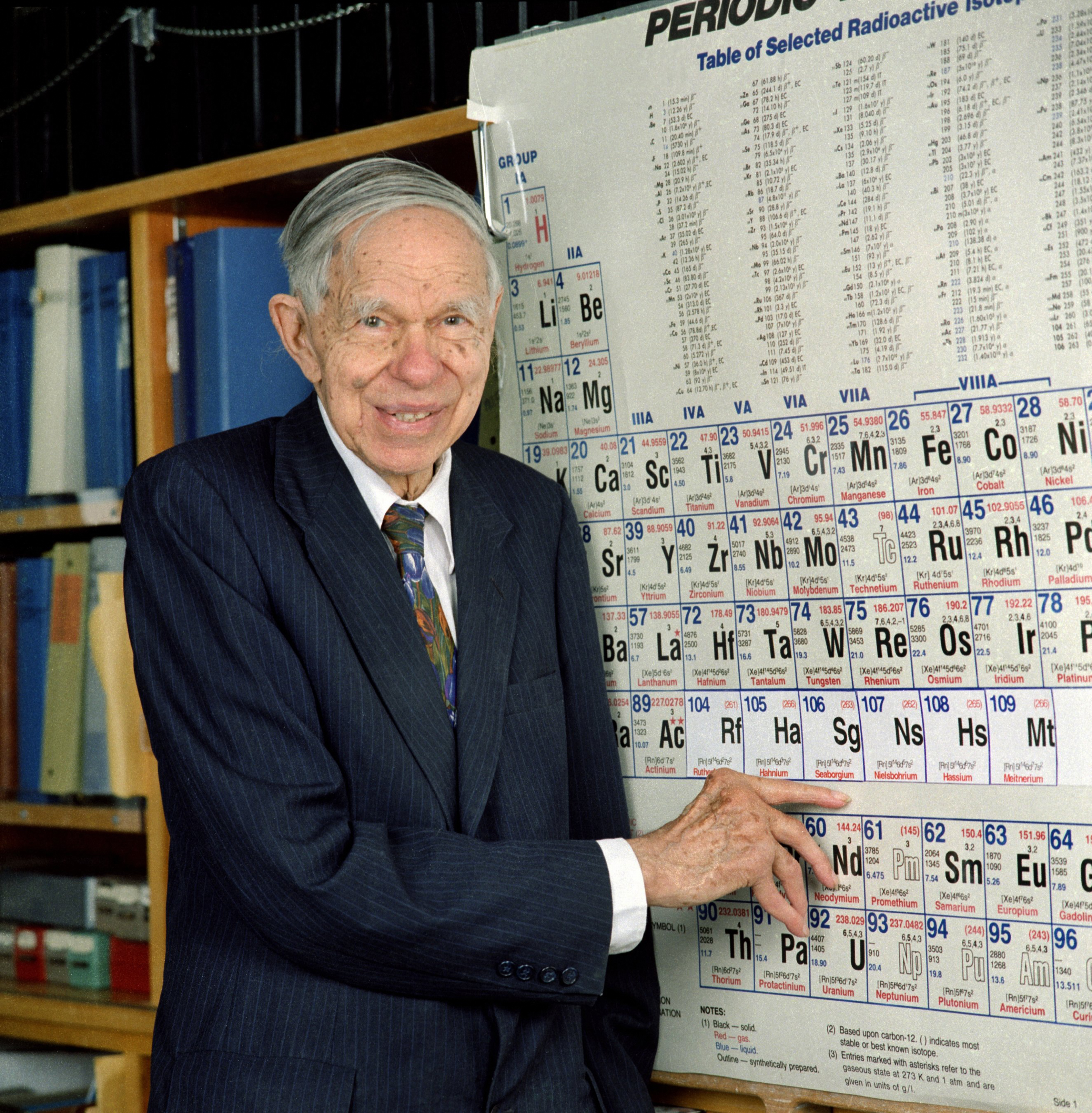 Chemist Glenn Seaborg stands next to a periodic table. He is pointing at the synthetic element seaborgium, which is named after him. Dr. Seaborg, a former Chairman of the Atomic Energy Commission, was awarded the Nobel Prize in Chemistry in 1951. ©1996 - 2014 American Academy of Achievement. All Rights Reserved Visit the Nuclear Regulatory Commission's website at To comment on this photo go to Photo Usage Guidelines: Privacy Policy